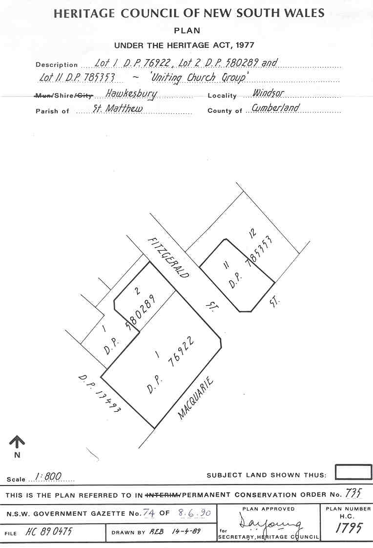 Windsor Uniting Church and Hall: PCO Plan Number 735